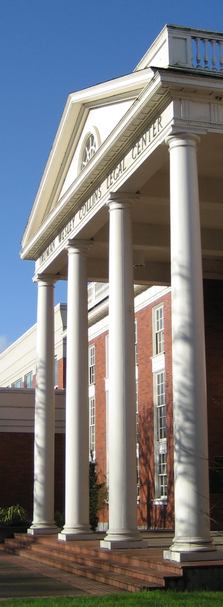 Willamette University College of Law building in Salem